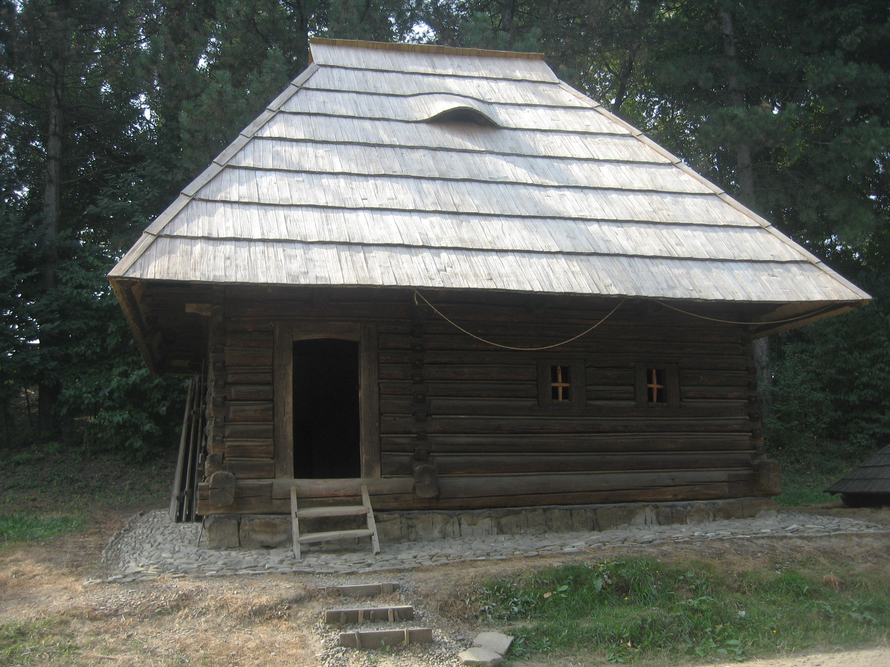 Bukovina Village Museum - The Câmpulung Moldovenesc House (Roată House), Câmpulung Moldovenesc ethnographic area.